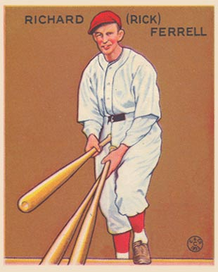 1933 Goudey baseball card of Richard "Rick" Ferrell of the St. Louis Browns #197. PD-not-renewed.